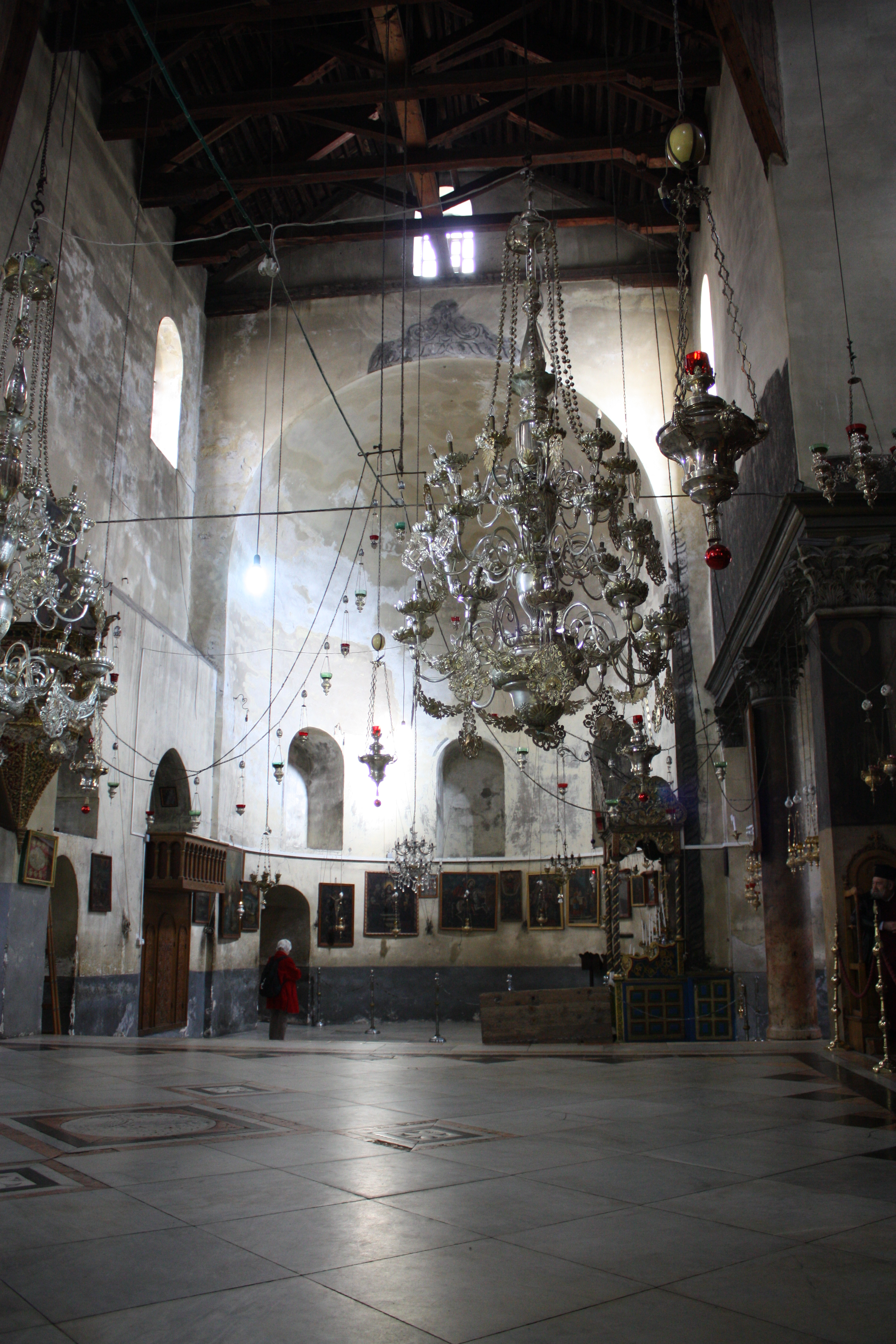 Interior of the Church of the Nativity.